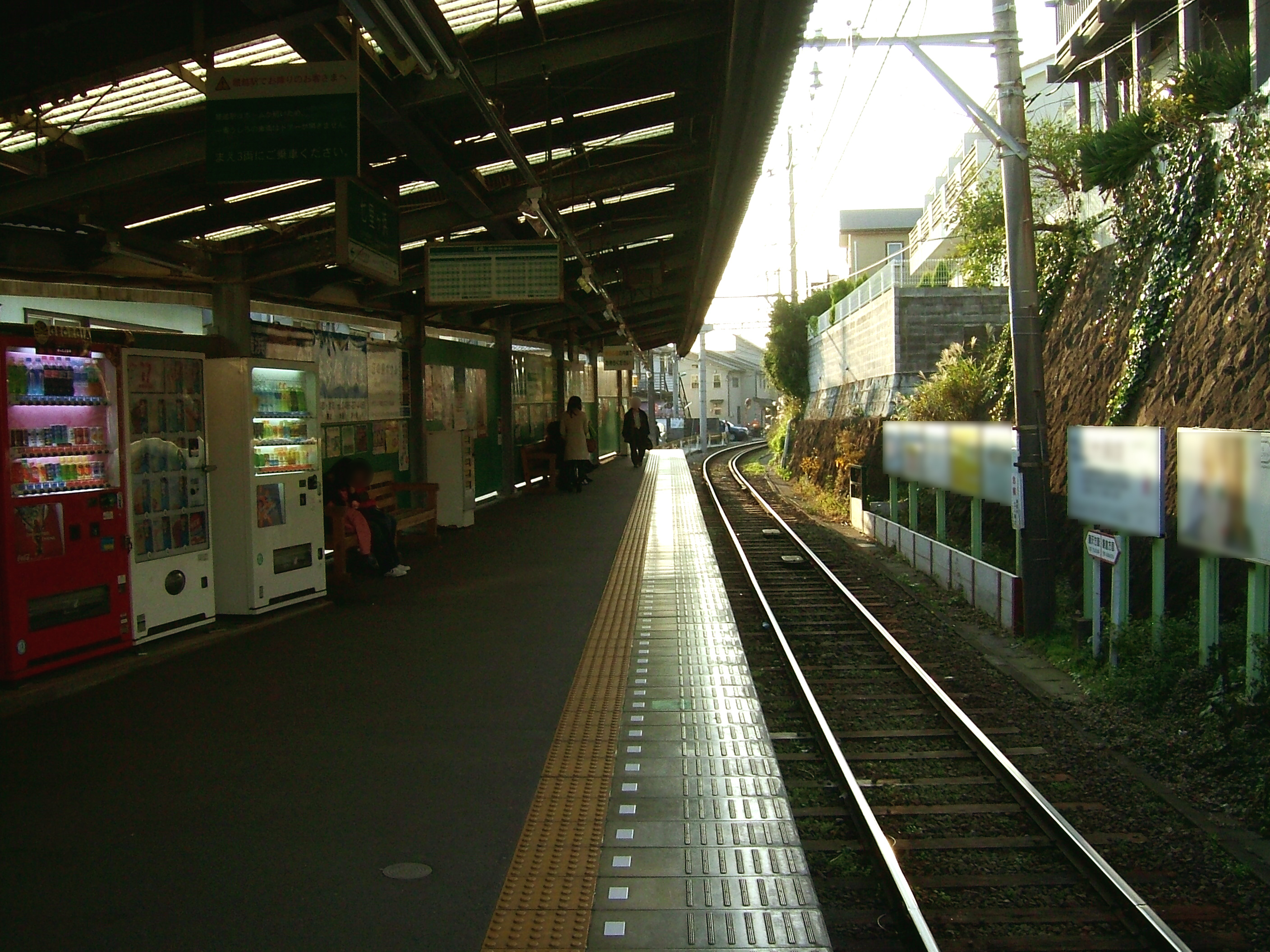 The platform at Shichirigahama Station on the Enoden Line in Kamakura city, Kanagawa prefecture, Japan